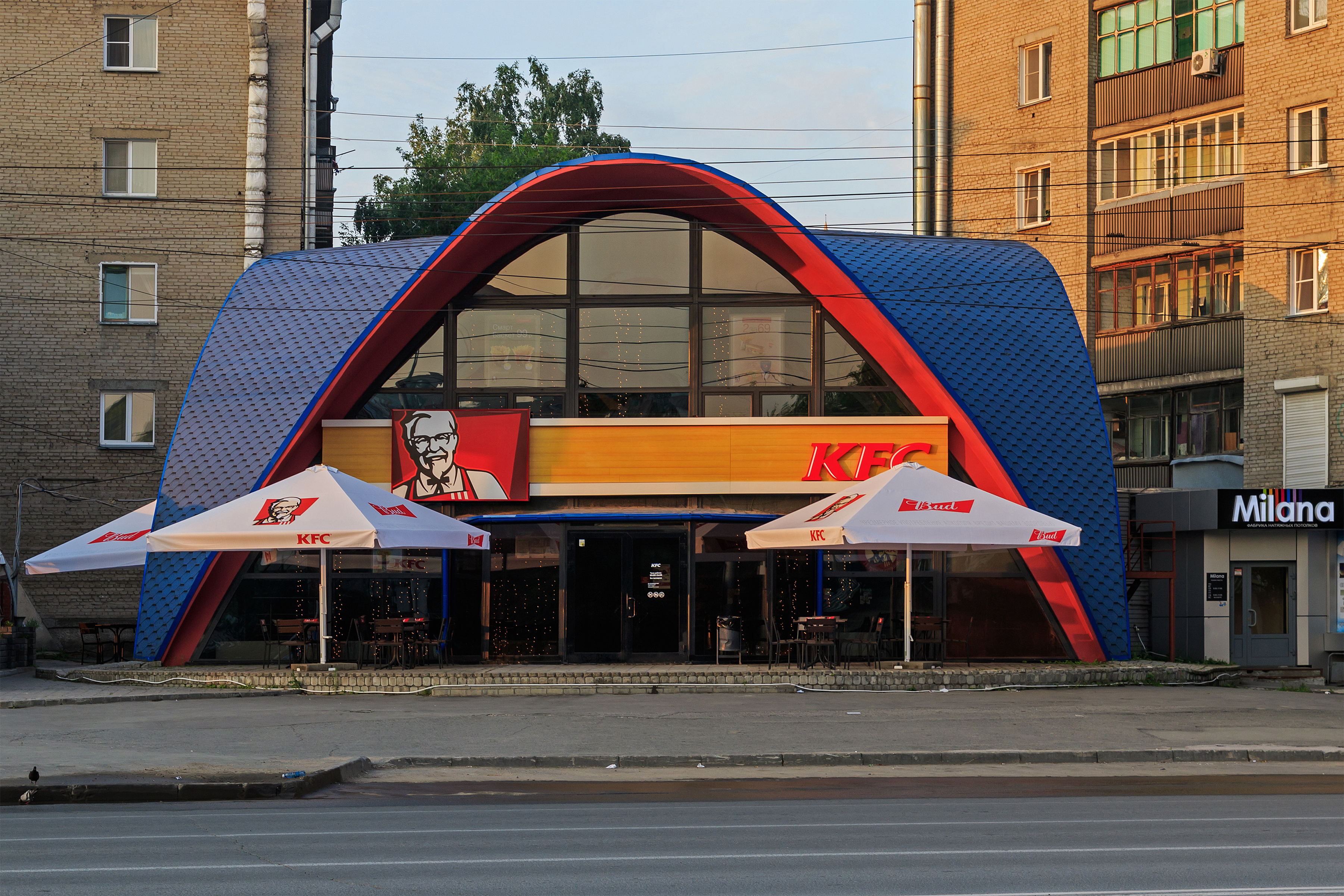 KFC restaurant at Chelyuskintsev Street in Novosibirsk, Russia